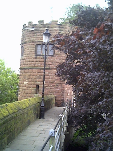 King Charles Tower, City Walls, Chester. Standing on the North-East corner of the city walls over looking the canal, is the tower called "King Charles's Tower". Called so because legend has it on the 24th of September 1645. King Charles stood on the tower and watched his army defeated in the battle of Rowton Moor.